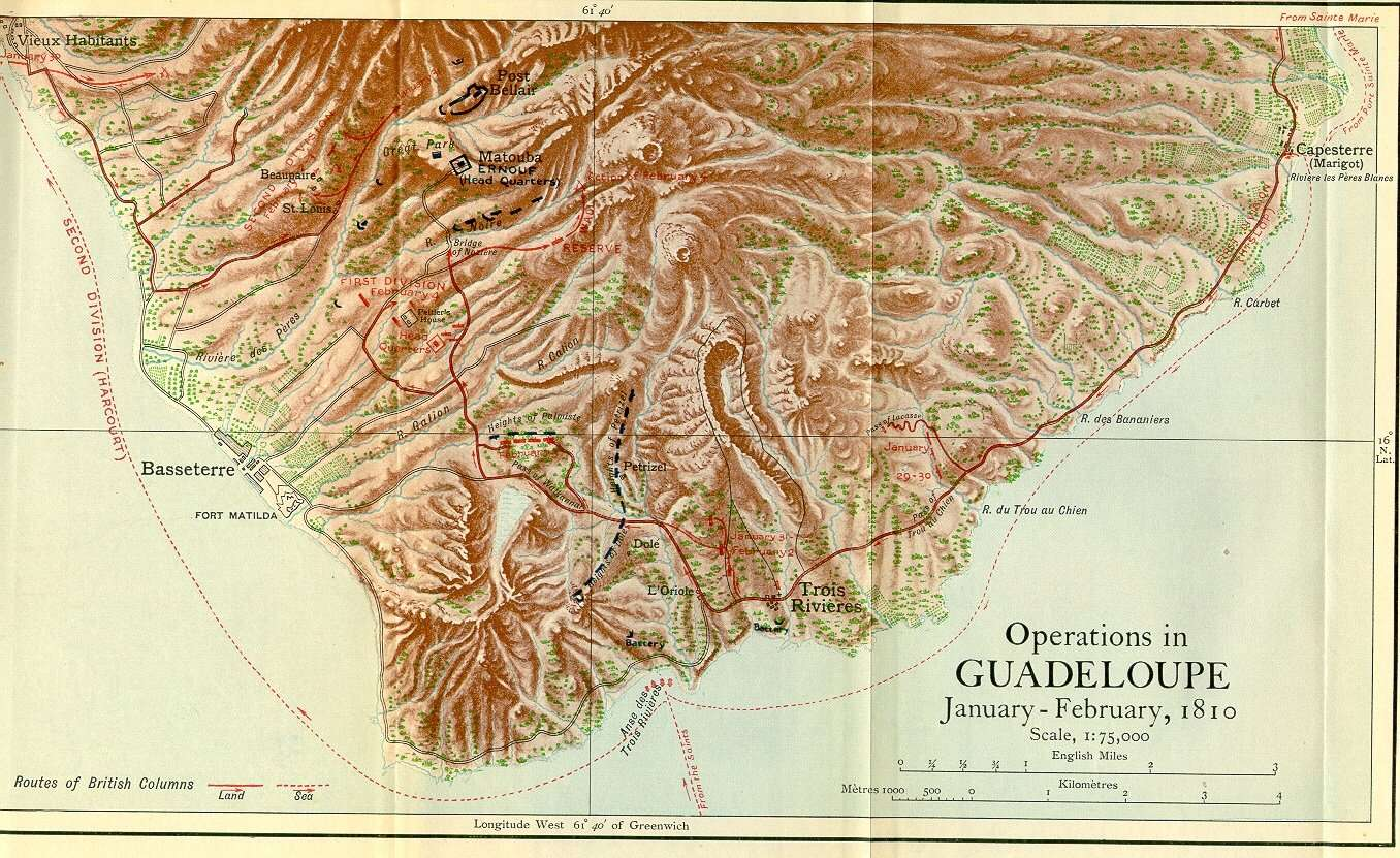 Invasion of Guadeloupe (1810) Overview Map